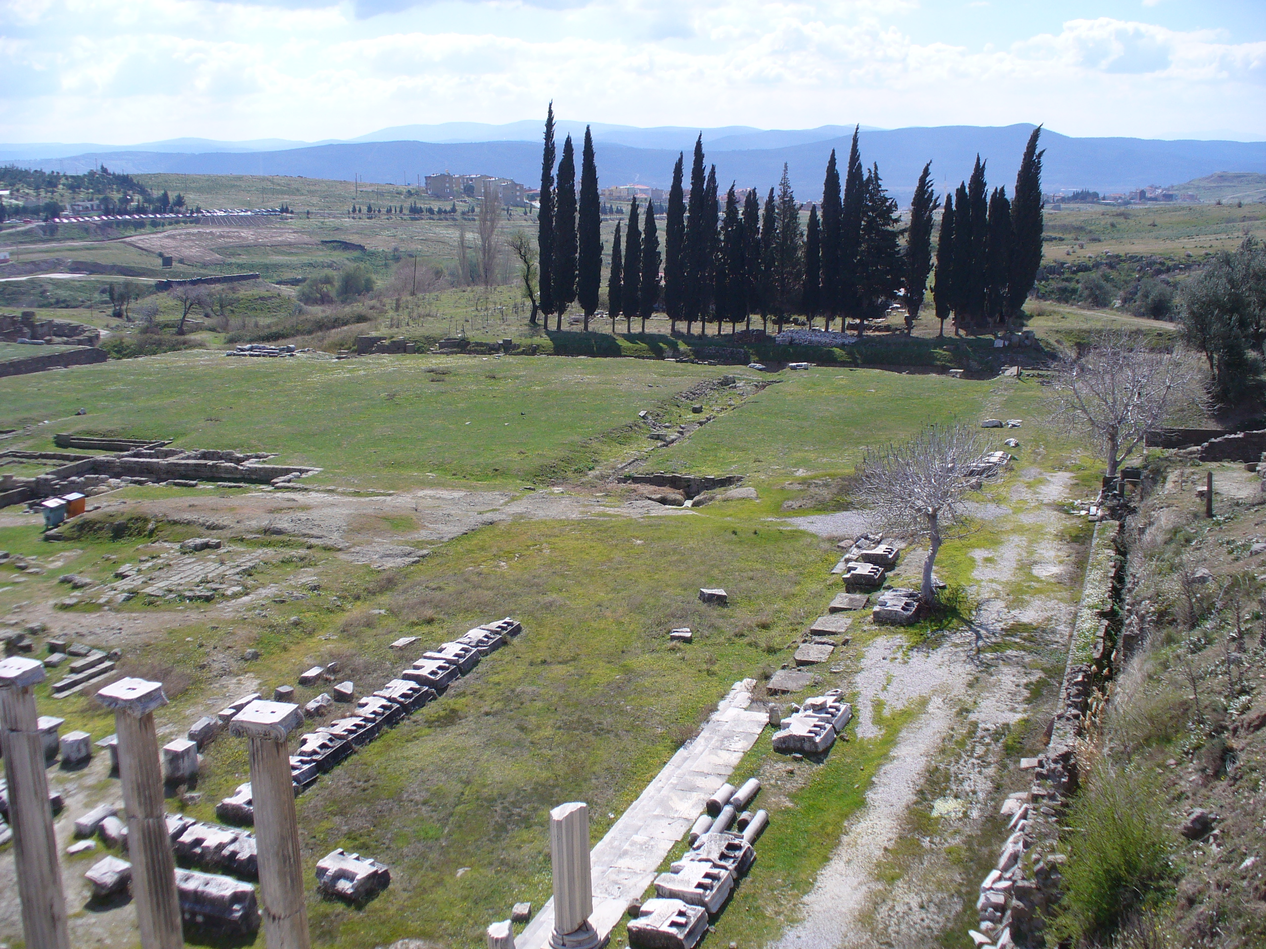 A view of the Asklepion from the top of the theatre.